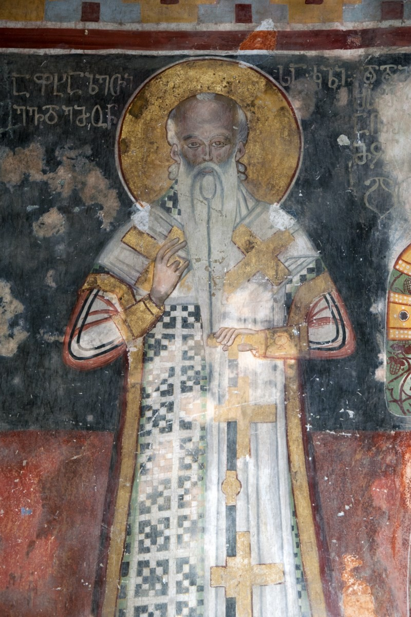 Catholcos Evdemon Chkhetidze. A fresco from the Gelati monastery, Georgia.